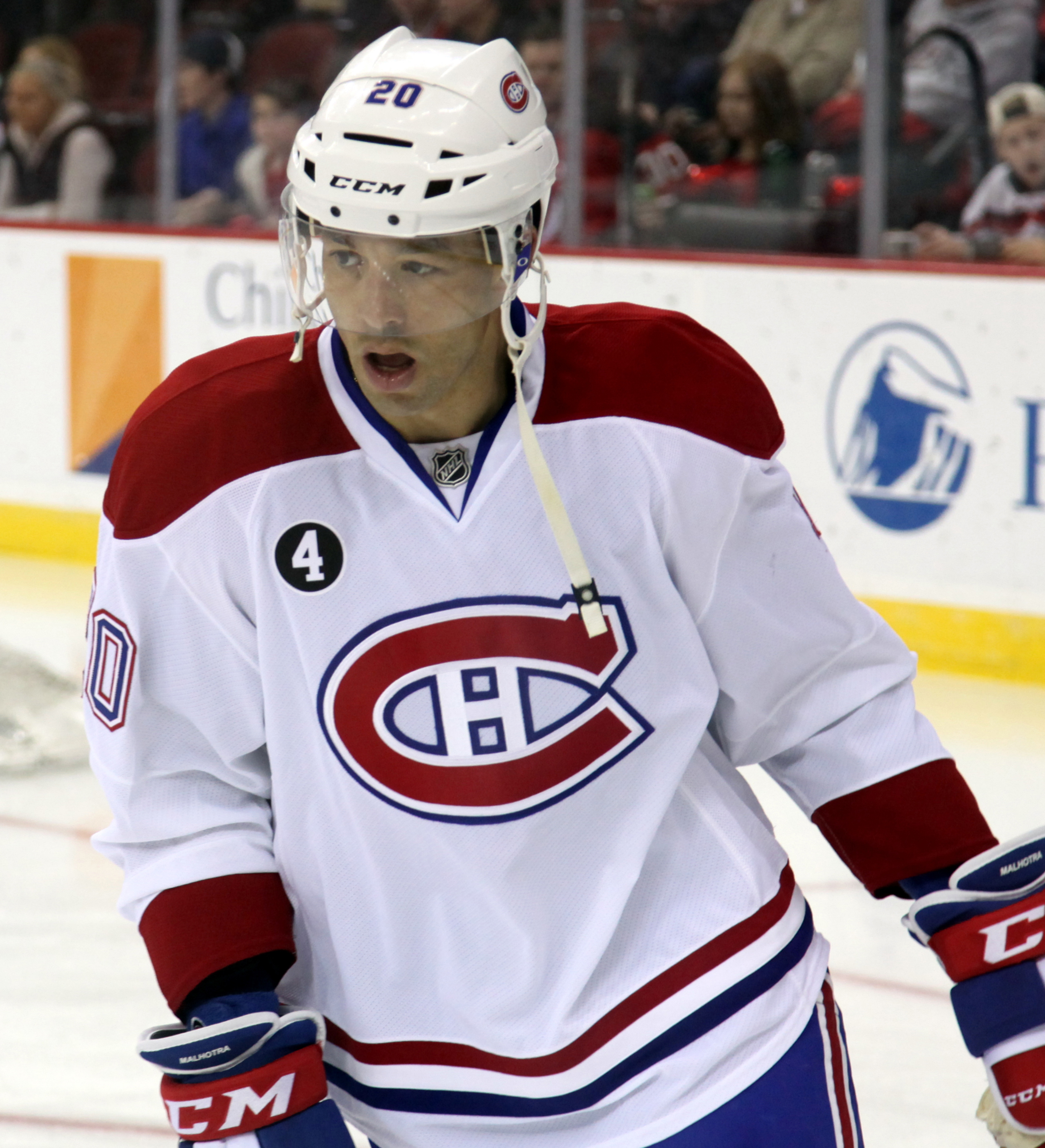 Manny Malhotra in April 2015.